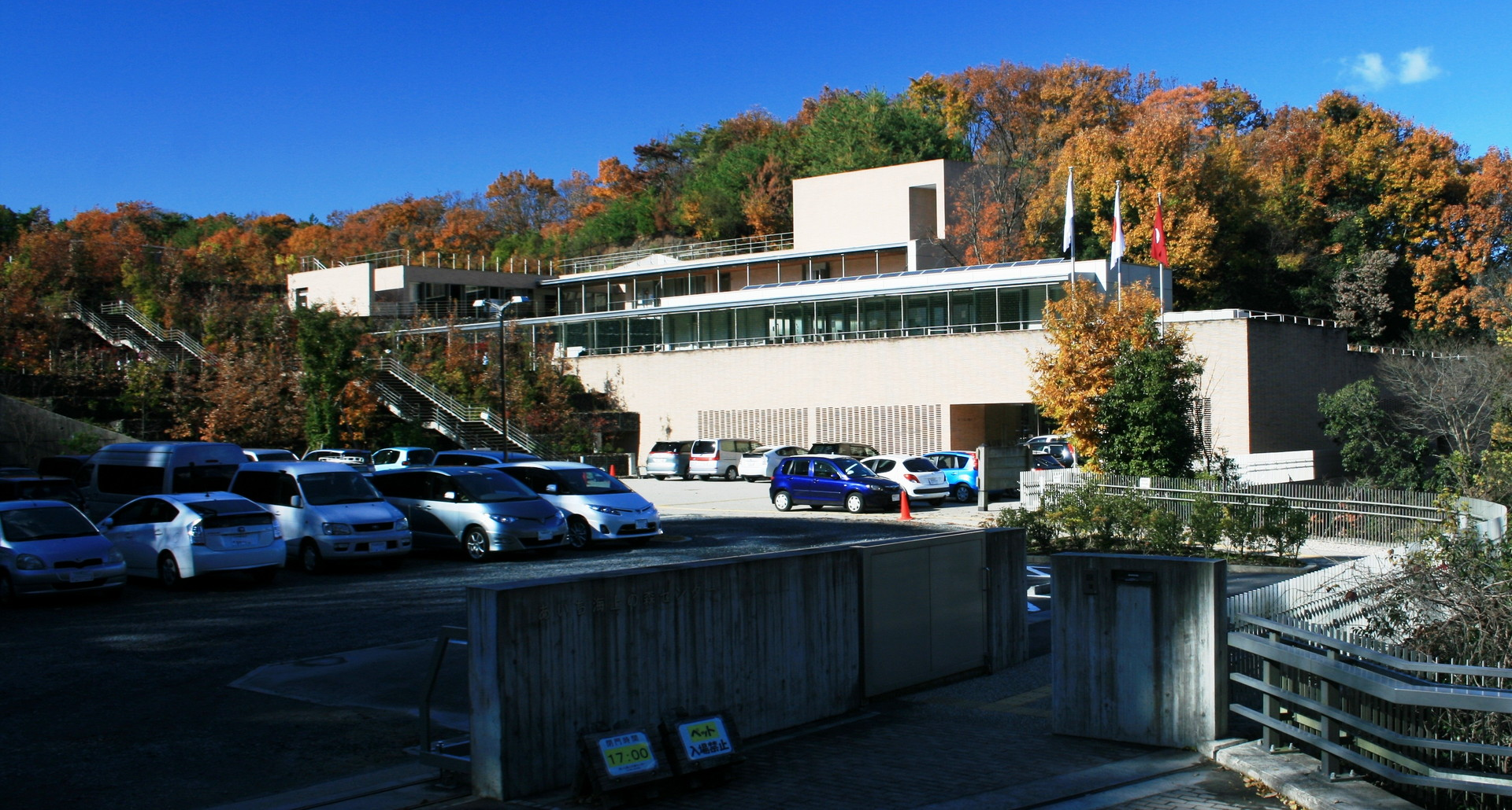 Main Building of Aichi Kaisho Forest Center